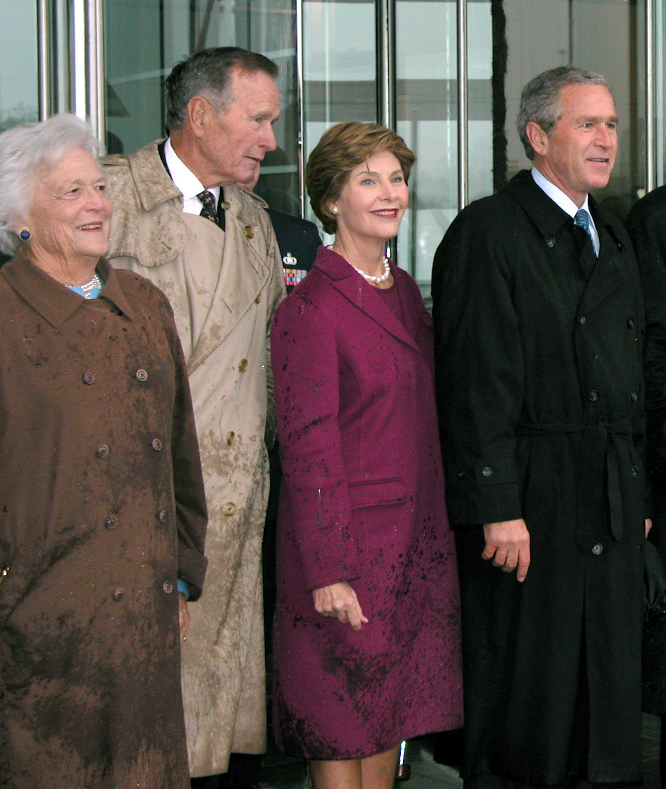 LITTLE ROCK, Ark. -- (From left) Barbara Bush, George H.W. Bush, Laura Bush, President George W. Bush, Bill Clinton, Chelsea Clinton, Hillary Clinton, Jimmy Carter and Rosalynn Carter pose for the media after the William J. Clinton Presidential Library opening ceremonies. (U.S. Air Force photo by Tech. Sgt. Bob Oldham